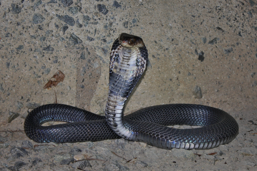 Found inside a water catchment on Lantau.